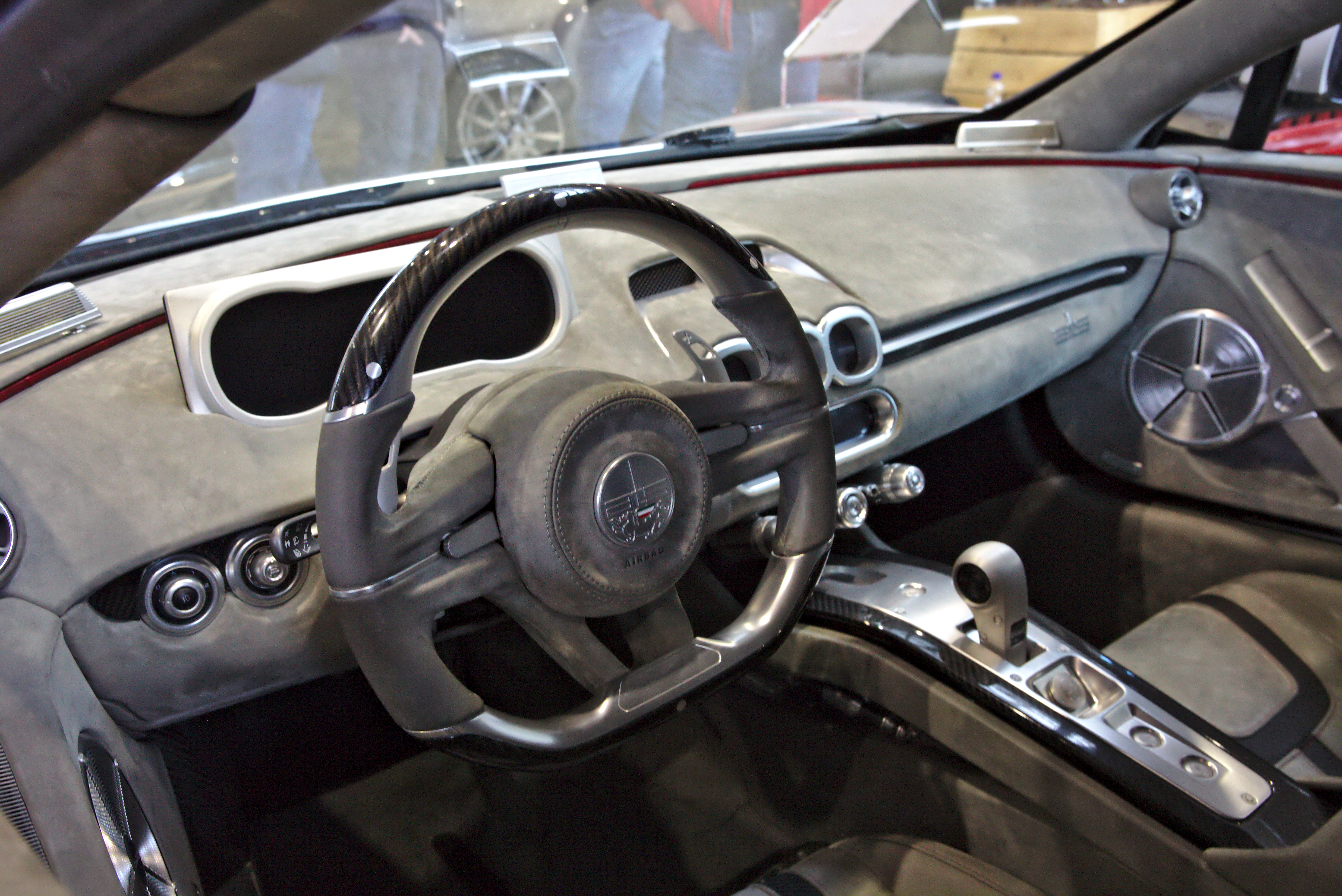 Automobili Turismo e Sport GT at Retro Classics 2018